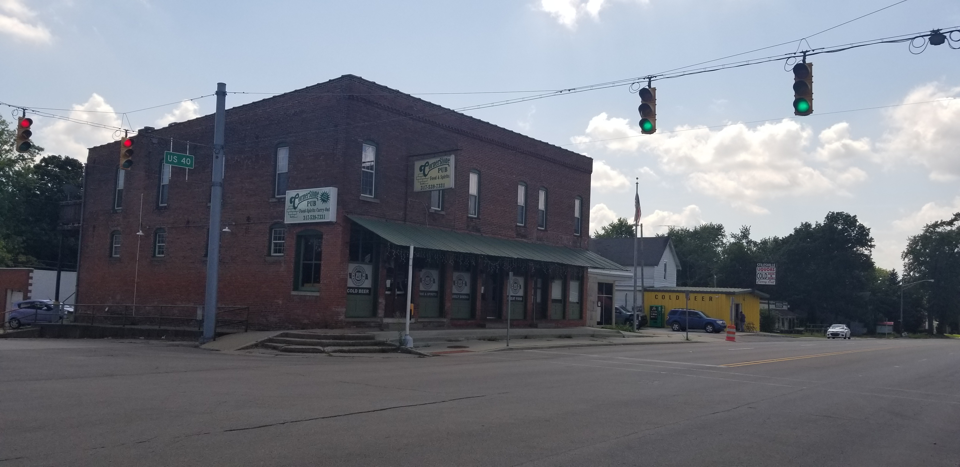 Stilesville, Indiana businesses along U.S. 40.